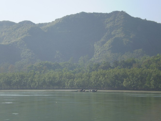 Natural View of Naf River